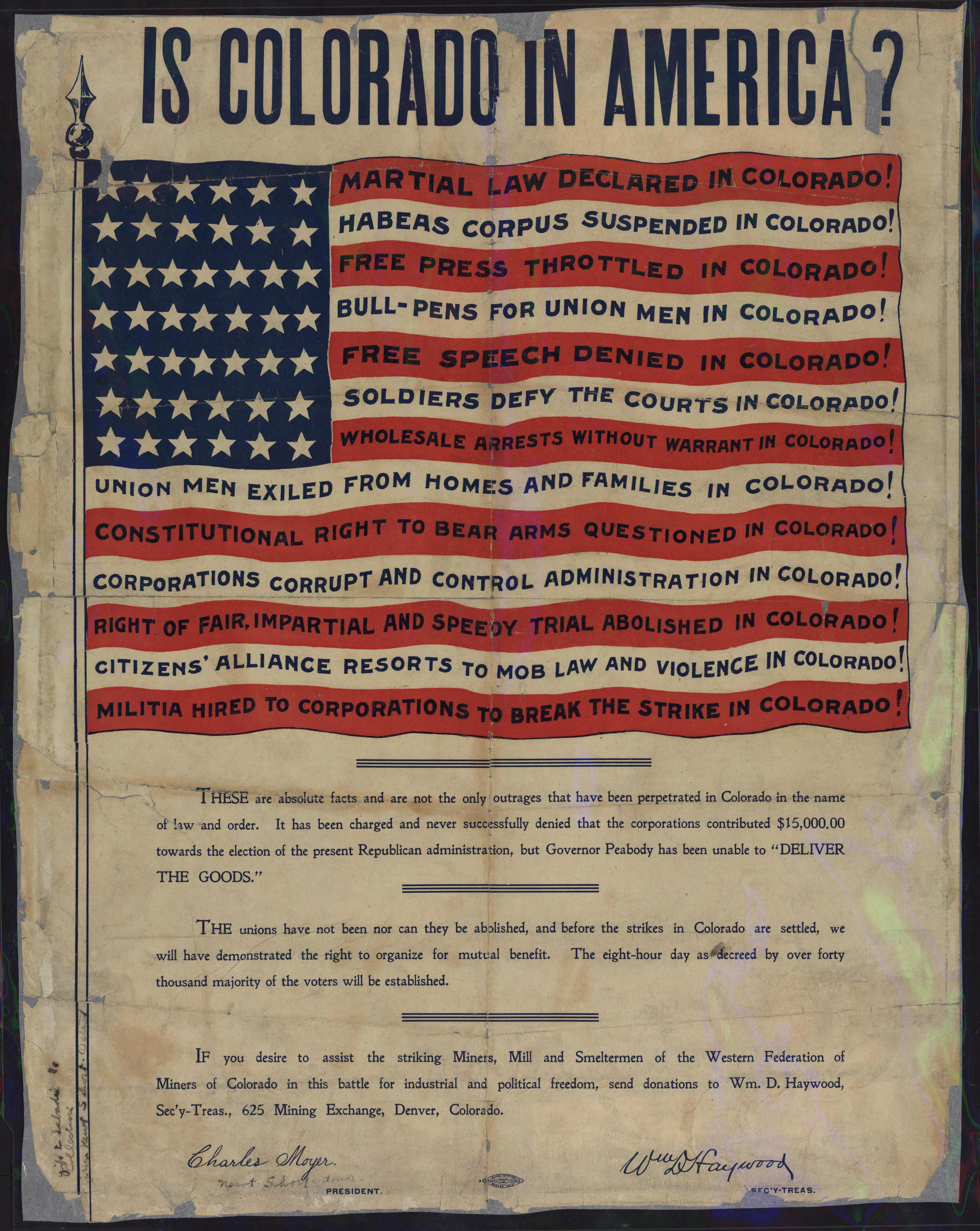 Is Colorado in America?, "Signed" by Charles Moyer and William D. Haywood